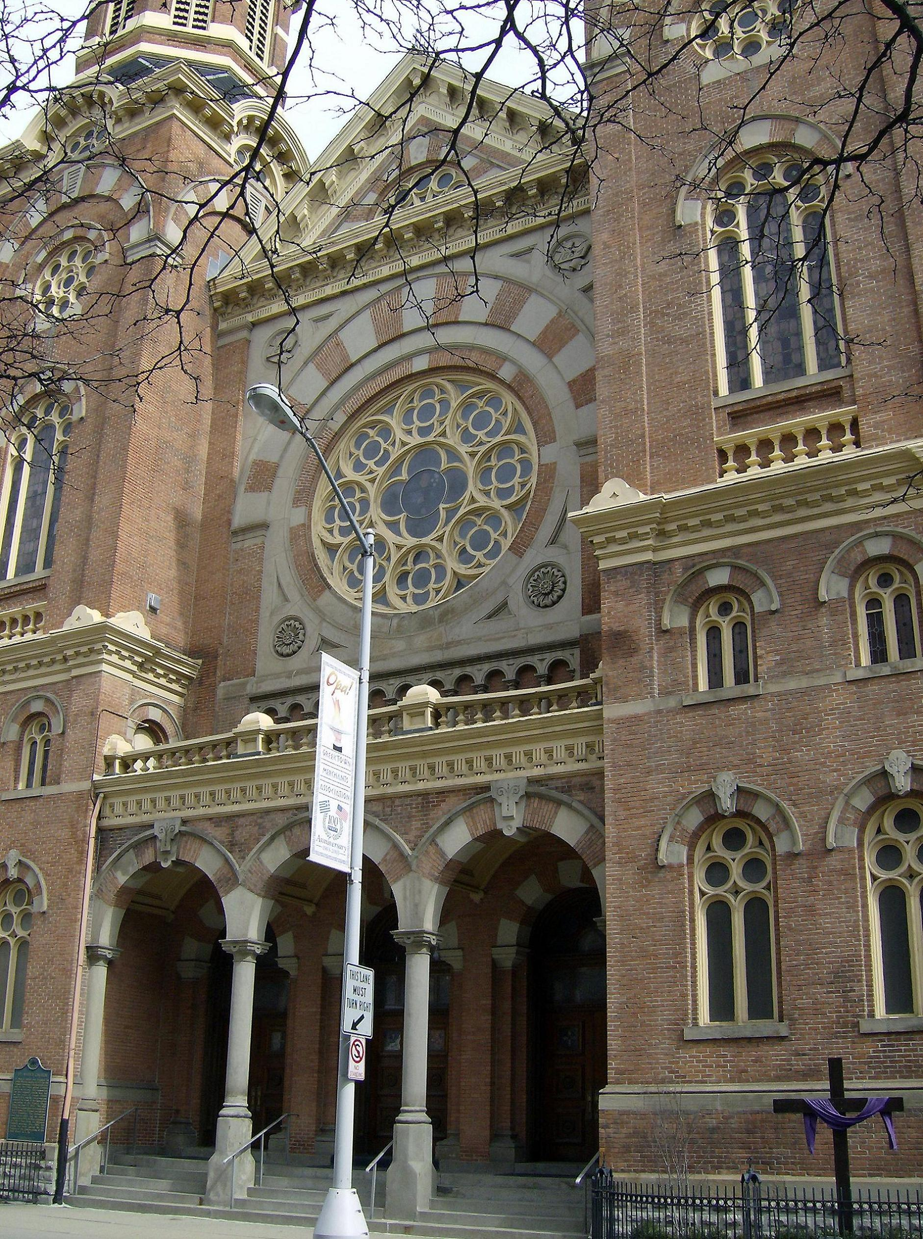 St._Mary's_Catholic_Church_(Detroit,_Michigan)